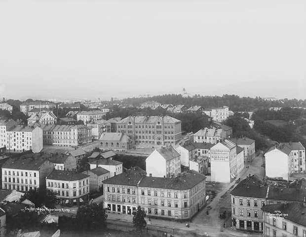 The neighbourhood of Bolteløkka in in Oslo, Norway. Seen from Fagerborg Church.